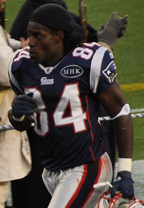 Danny Woodhead and Deion Branch